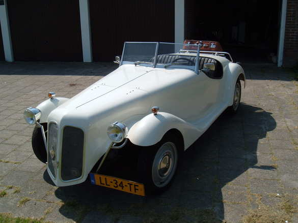 Charon (auto)